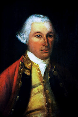 Lieutenant-General William Skinner (1700 – December 25, 1780) was Chief Engineer of Great Britain - this pinting is by an unknown artist and it was found by N Chipinini ?